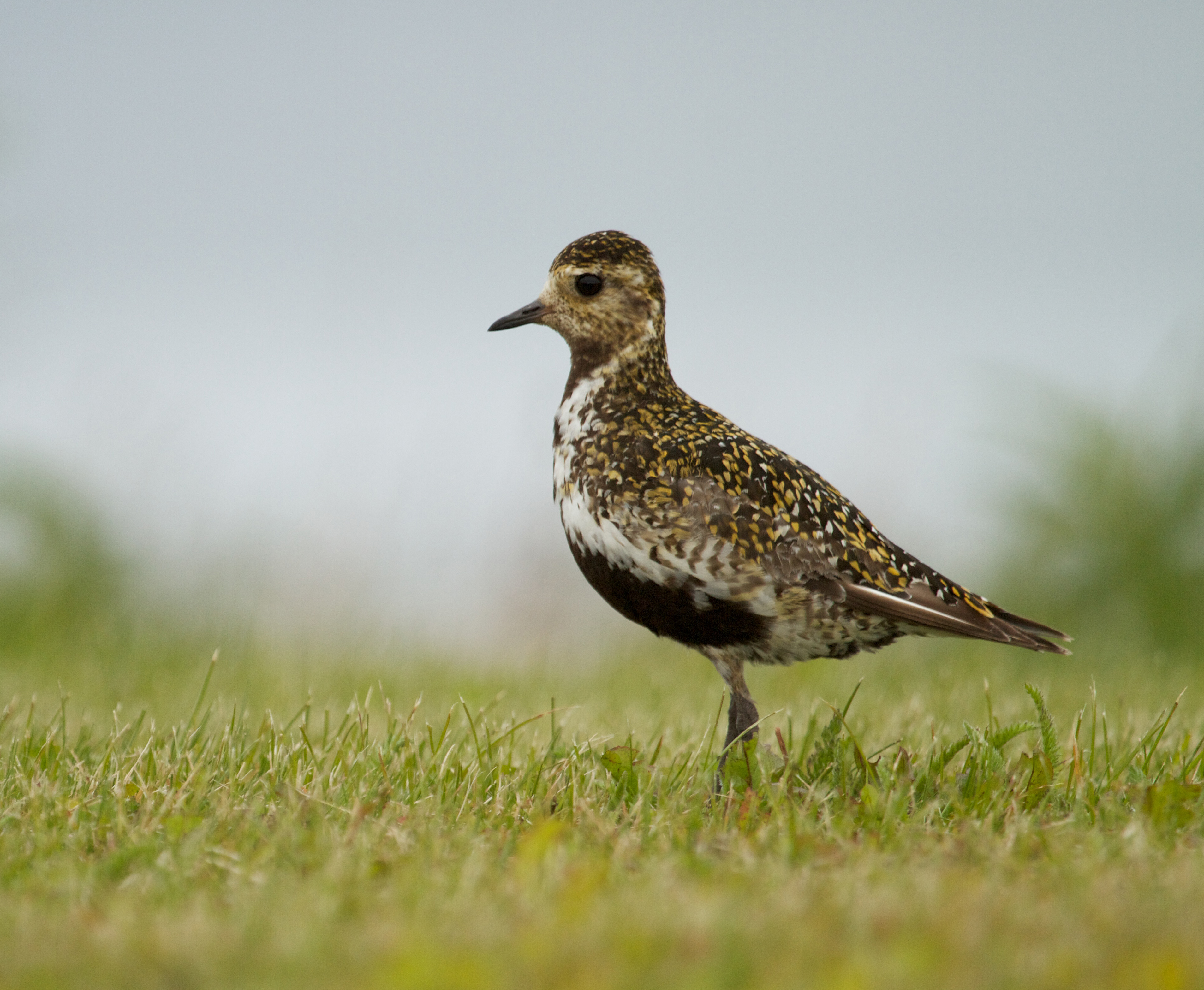 European Golden Plover Pluvialis apricaria, Thorshofn, Nordur-Tingeyjarsysla, Iceland